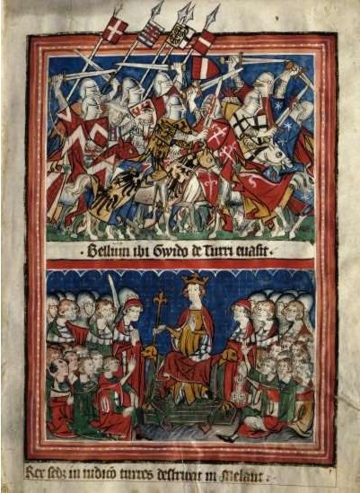 Miniature of the Battle of Milan of 12 February 1311 ( Bellum ibi Gwido de Turri evasit) and the subsequent judgement of Guido della Torre and his co-conspirators by Henry VII (Rex sedens in judicio turres destruxit in Melant)